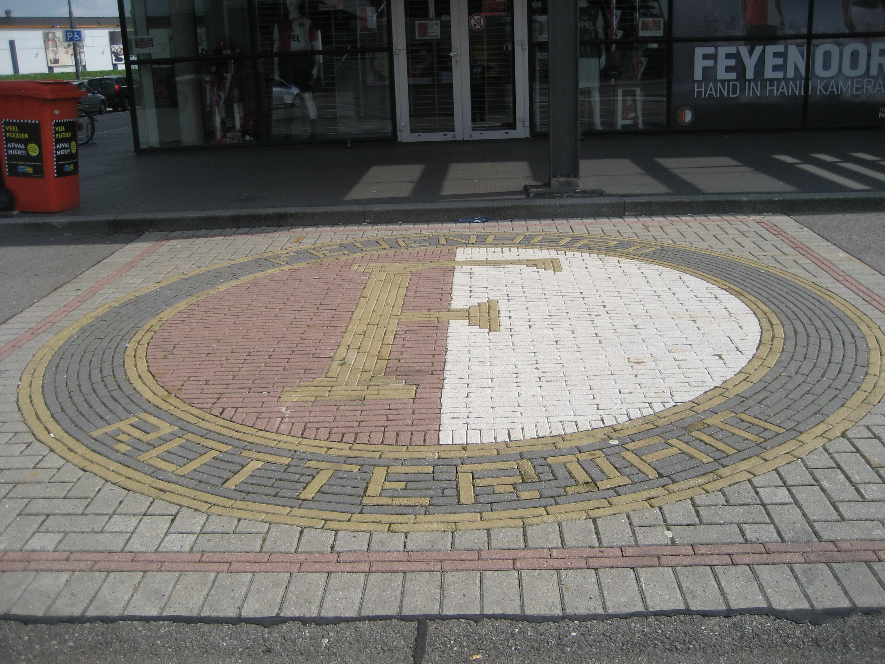 Logo of footballclub Feyenoord Rotterdam (The Netherlands). Near Topsportcentrum Rotterdam & De Kuip